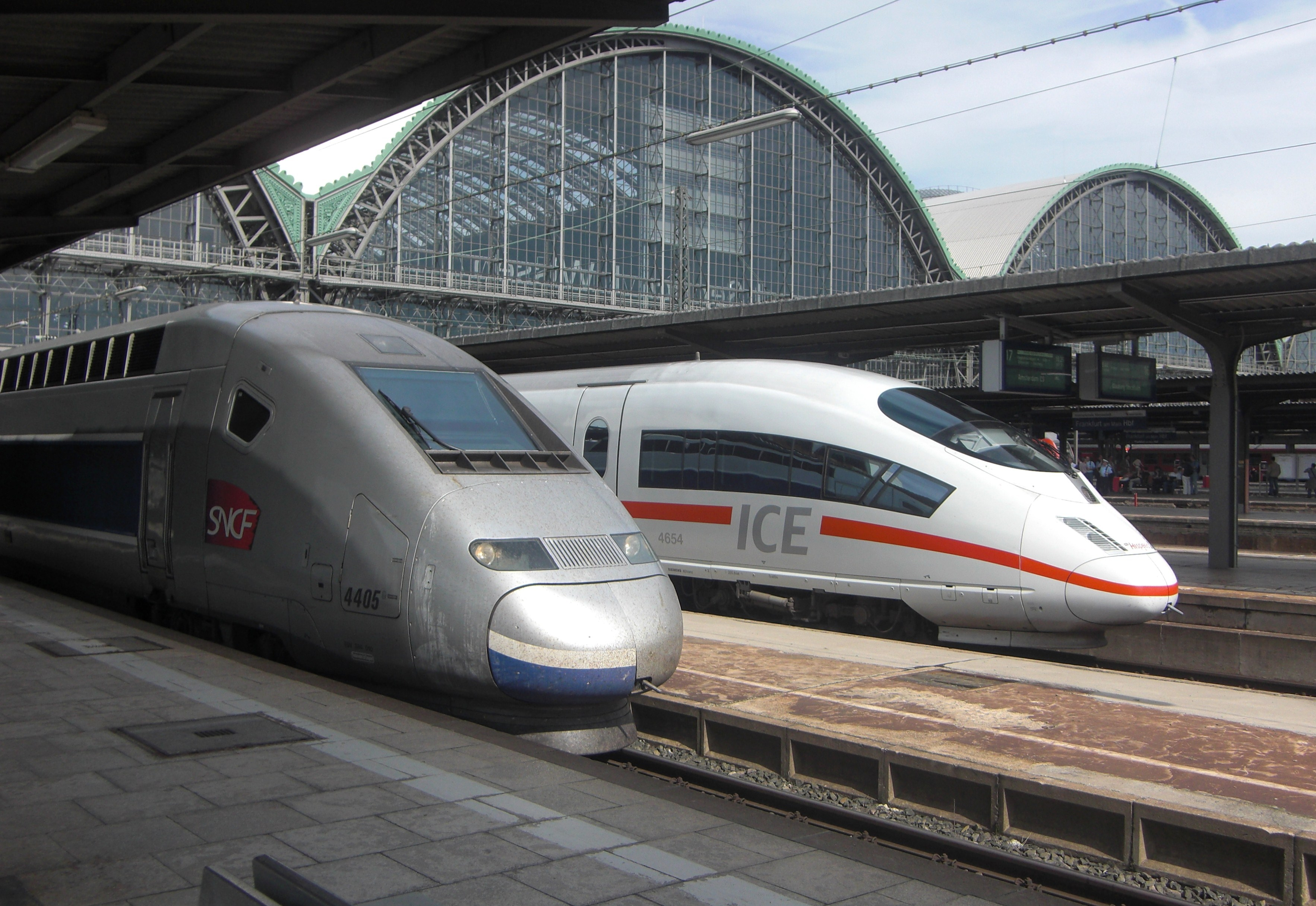 TGV 4405 and ICE International 4654 at Frankfurt am Main Hbf.